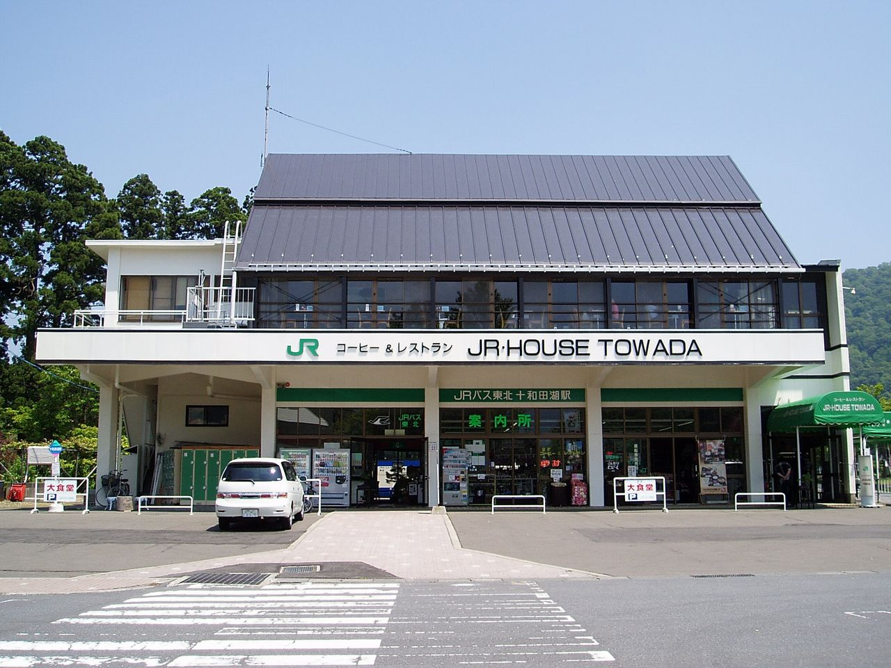 JR Bus Tohoku Towadako Sta.